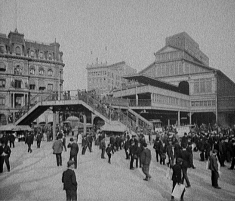 Circa 1905 photo of the New York (Manhattan) terminal of the Brooklyn Rapid Transit elevated system, known as "Park Row," after the street that crosses in front of the terminal. The large barn-like structure is the terminal shed. The extension in front contains the tail tracks which provided additional platform and track space. Taken from City Hall Park.).